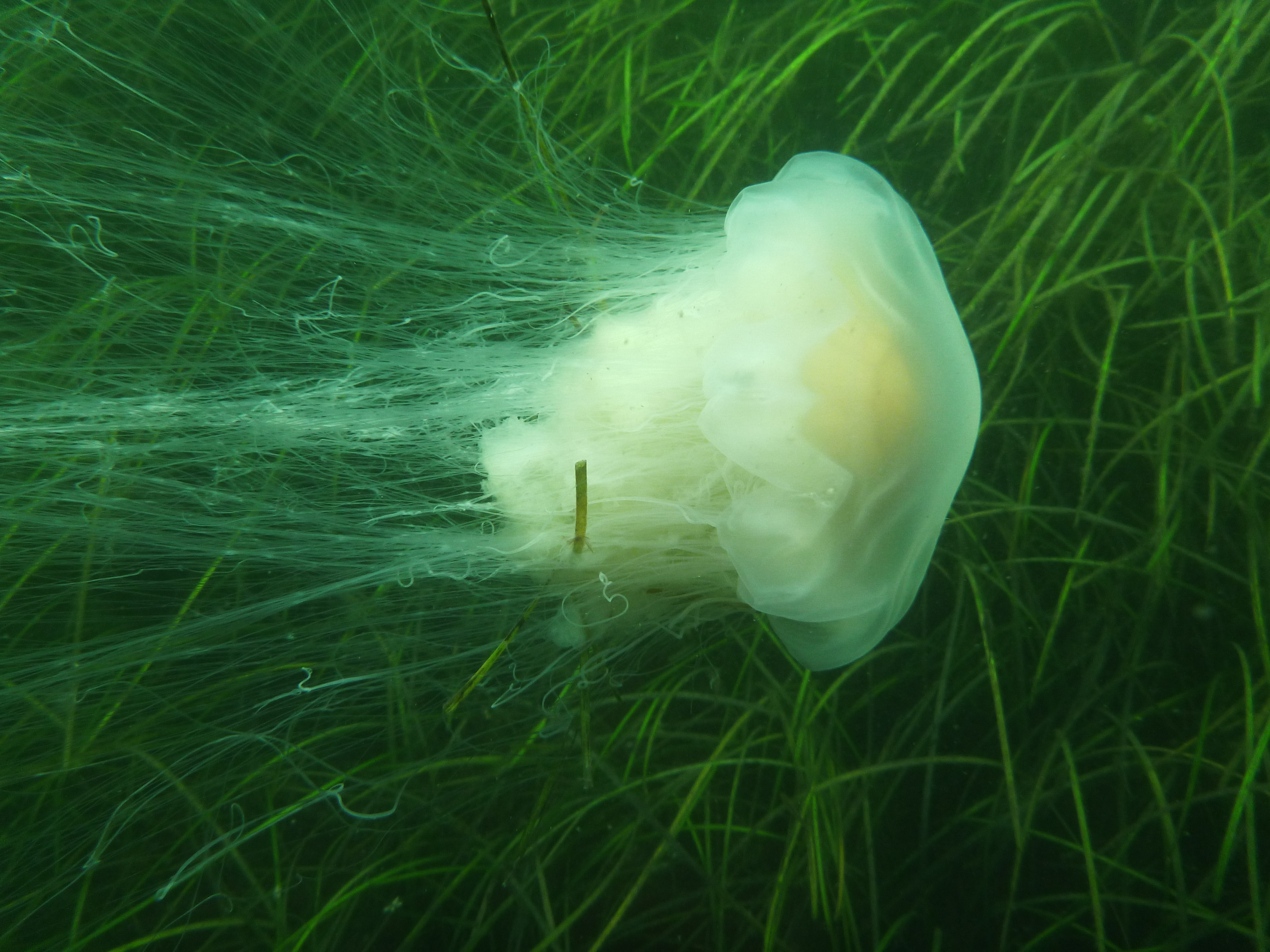 Cyanea capillata in the Baltic Sea close to Kiel in Strande